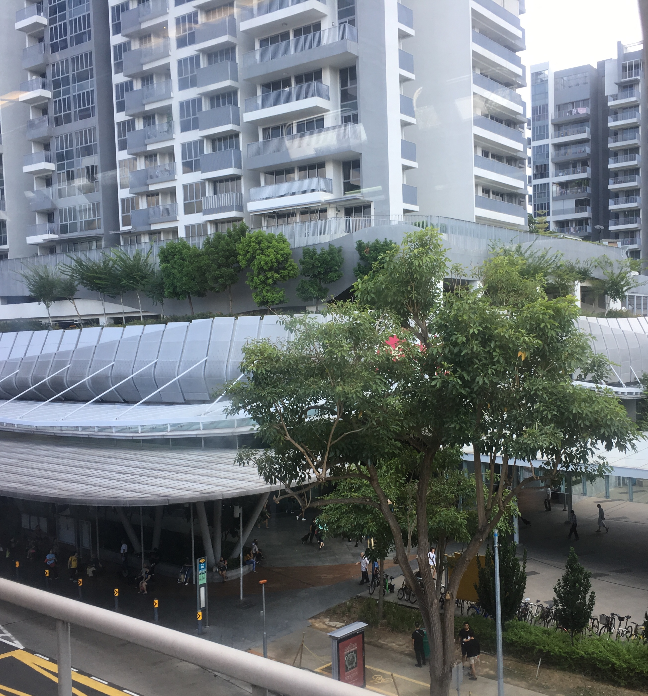 Bedok Mall as seen from Green MRT line